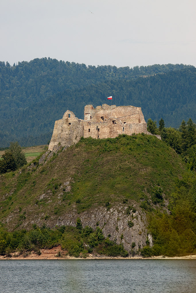 Czorsztyn Castle Ruins